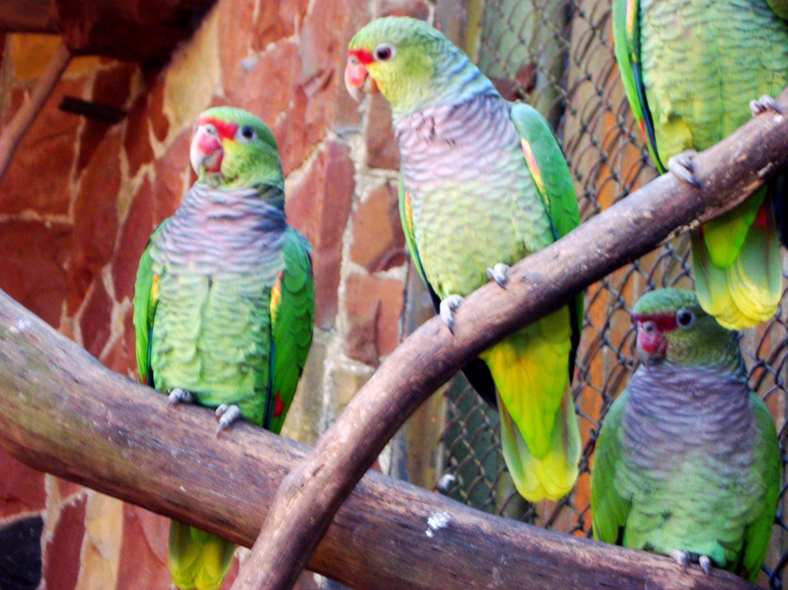 Several Vinaceous-breasted Amazons (also known as Vinaceous Amazon) at São Paulo Zoo, Brazil.